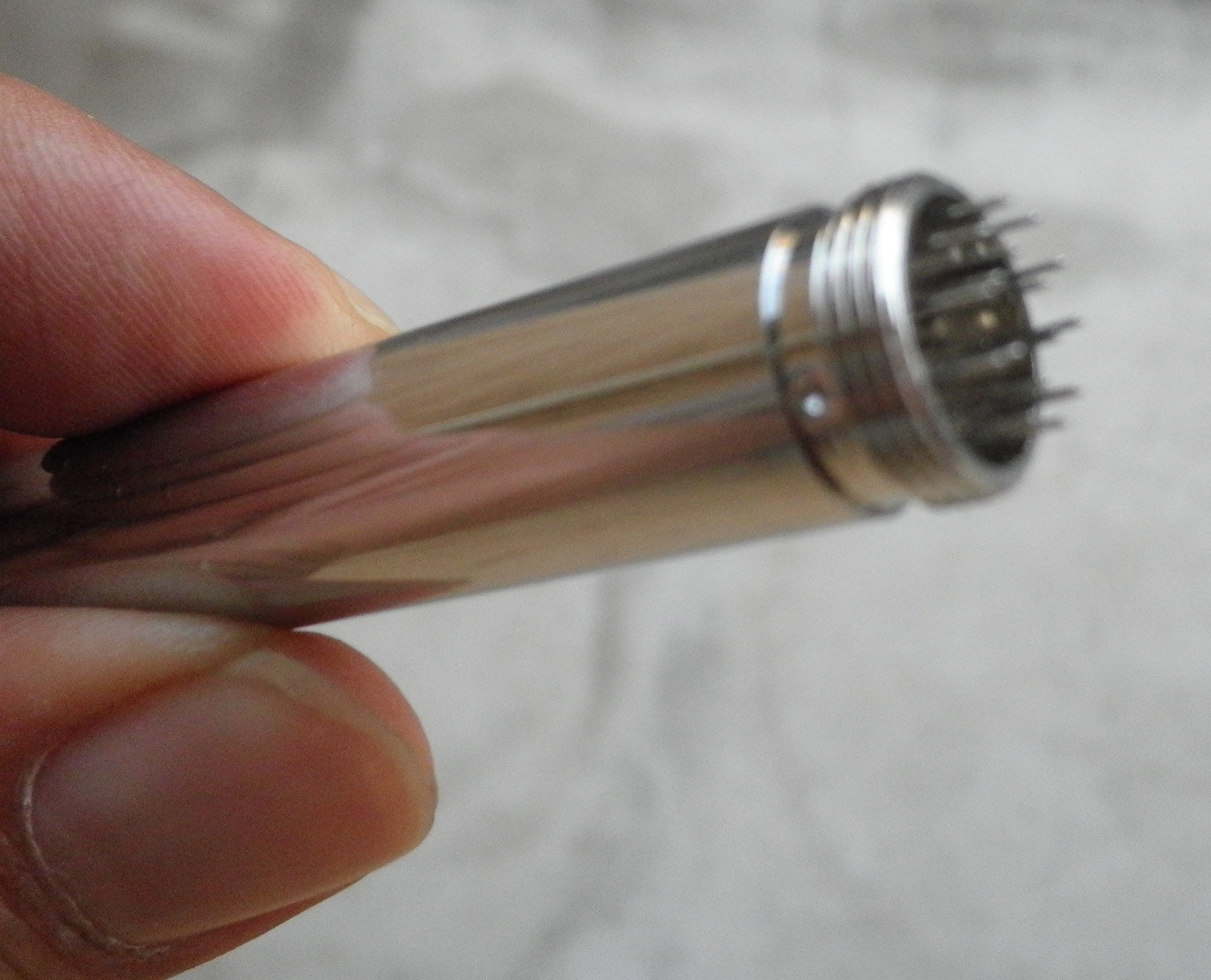 acupuncture instrument used for infant